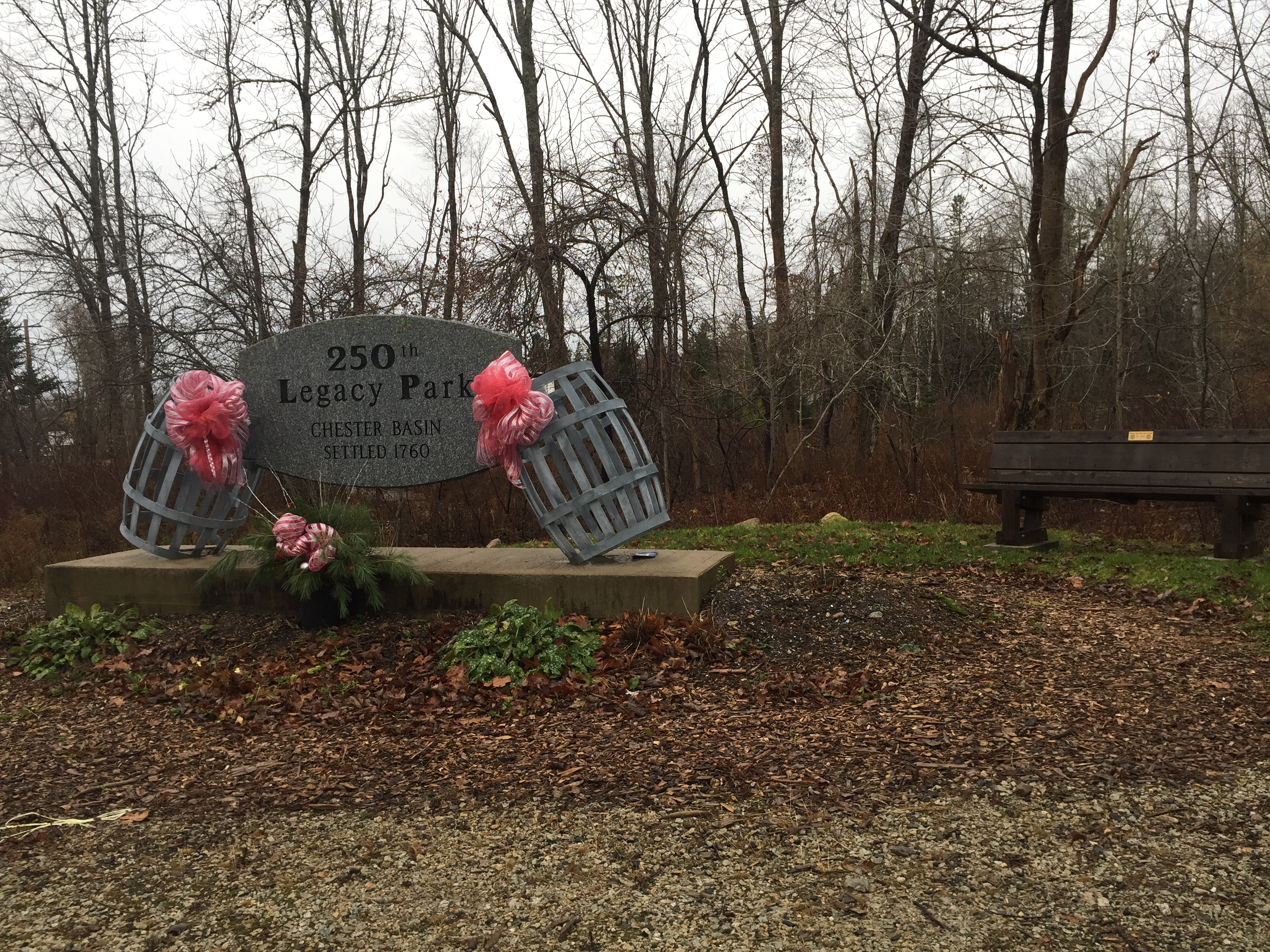 Legacy Park, Chester Basin, NS